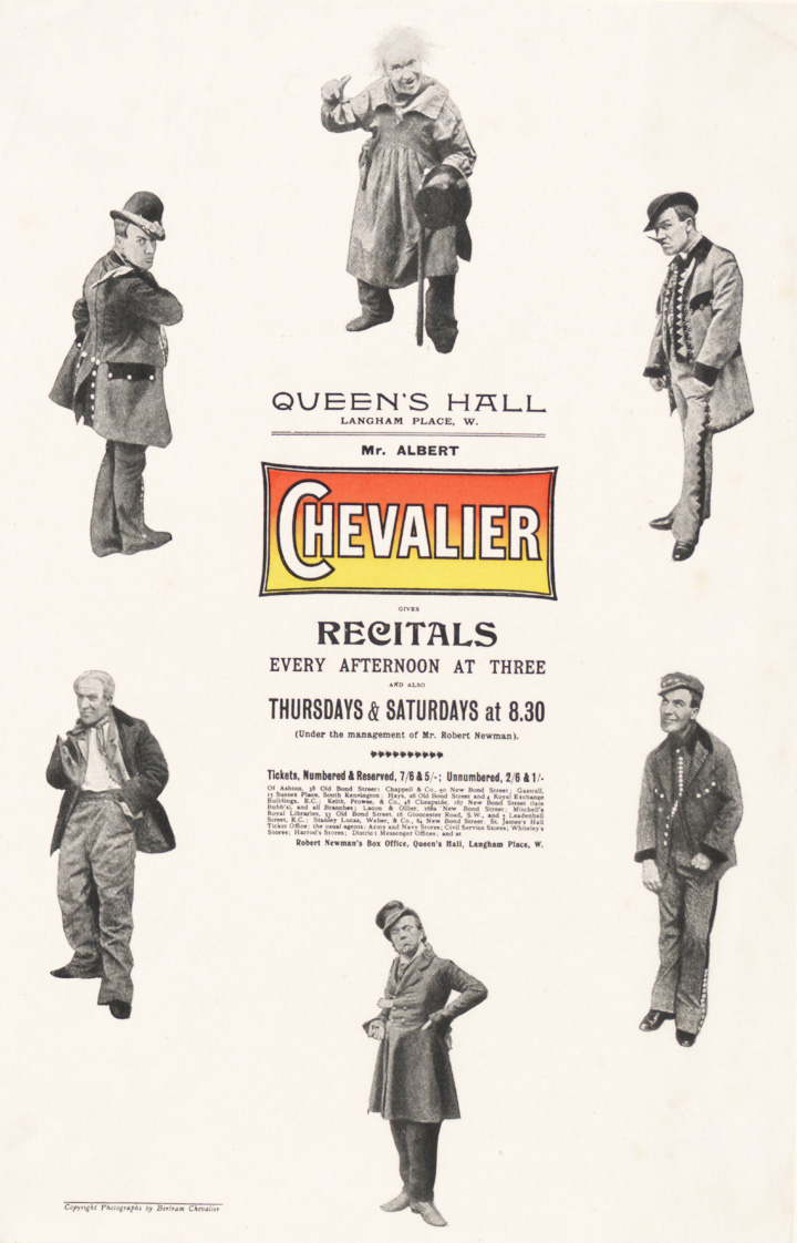 Scan of original advertisement bill, circa 1900, for performances by Albert Chevalier at the small concert hall of the Queen's Hall.